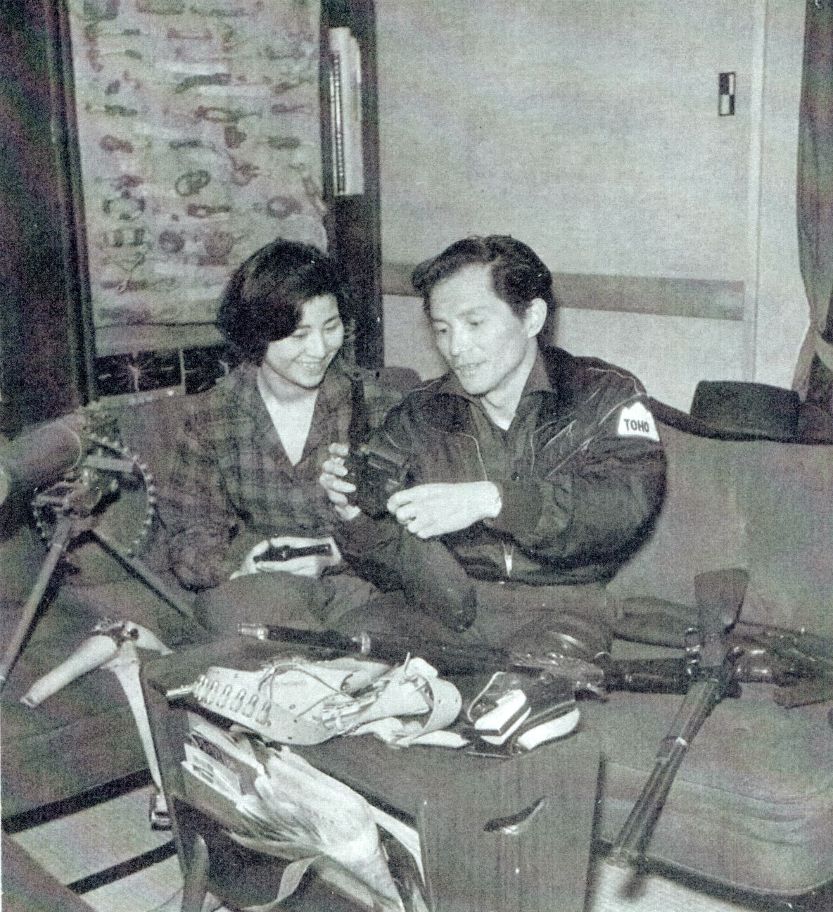 Kihachi (light) and Minako (left) Okamoto